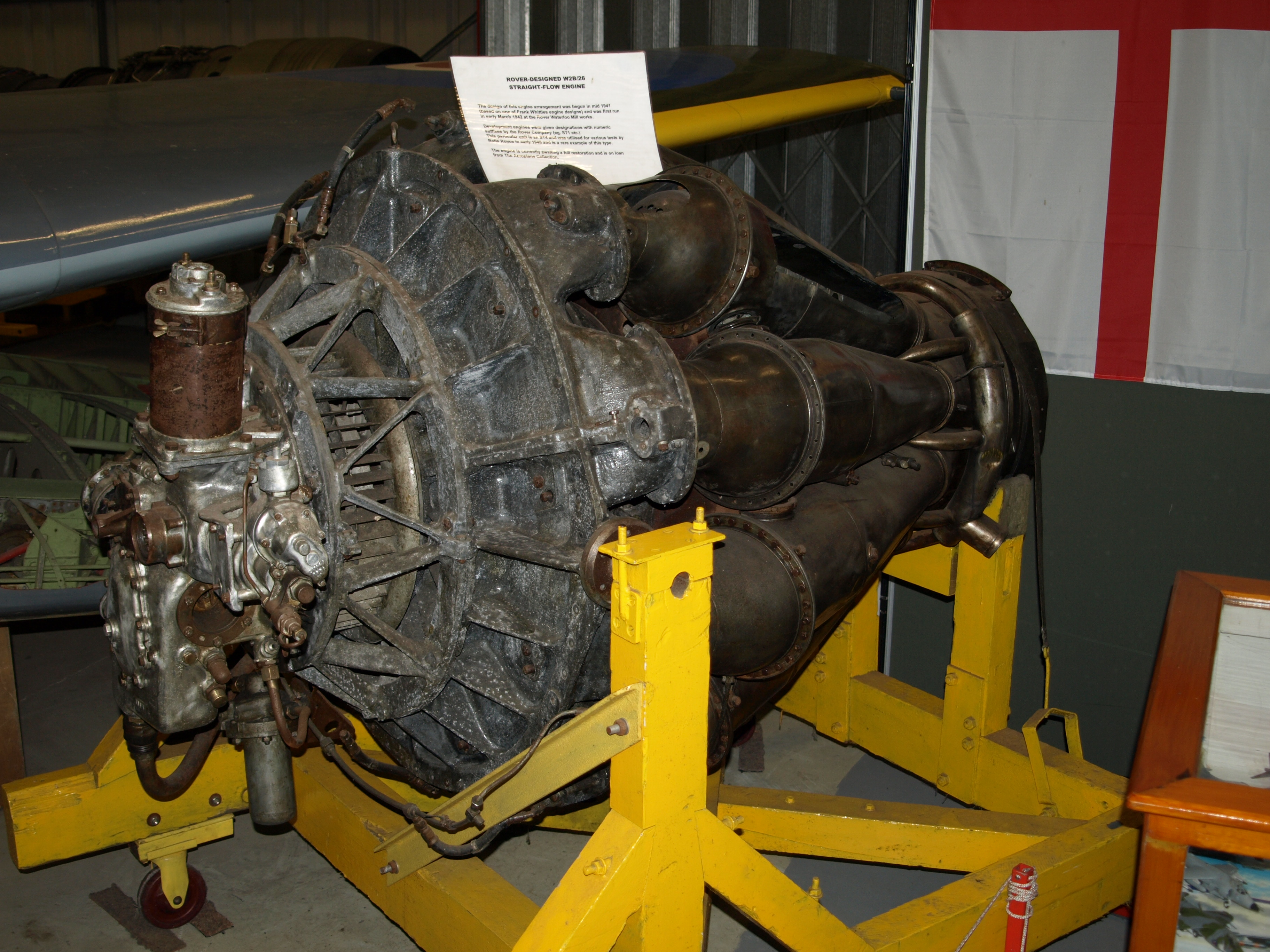 Rover W2B/26 jet engine preserved at the Midland Air Museum, Coventry, UK.